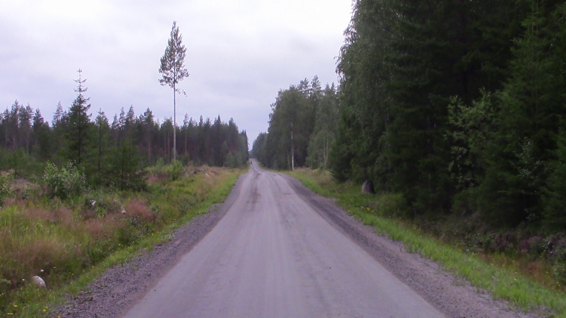 Connecting road 3352 near Närhinevantie road crossing in Kihniö, Finland. The road runs from Niskos, Kihniö to Koronkylä, Virrat.